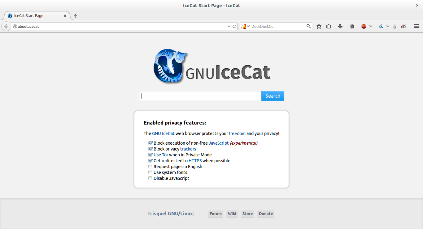 GNU IceCat 31 on Trisquel GNU/Linux